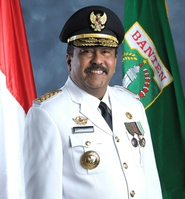 Rano Karno, Governor of Banten for the period 2015—2017.